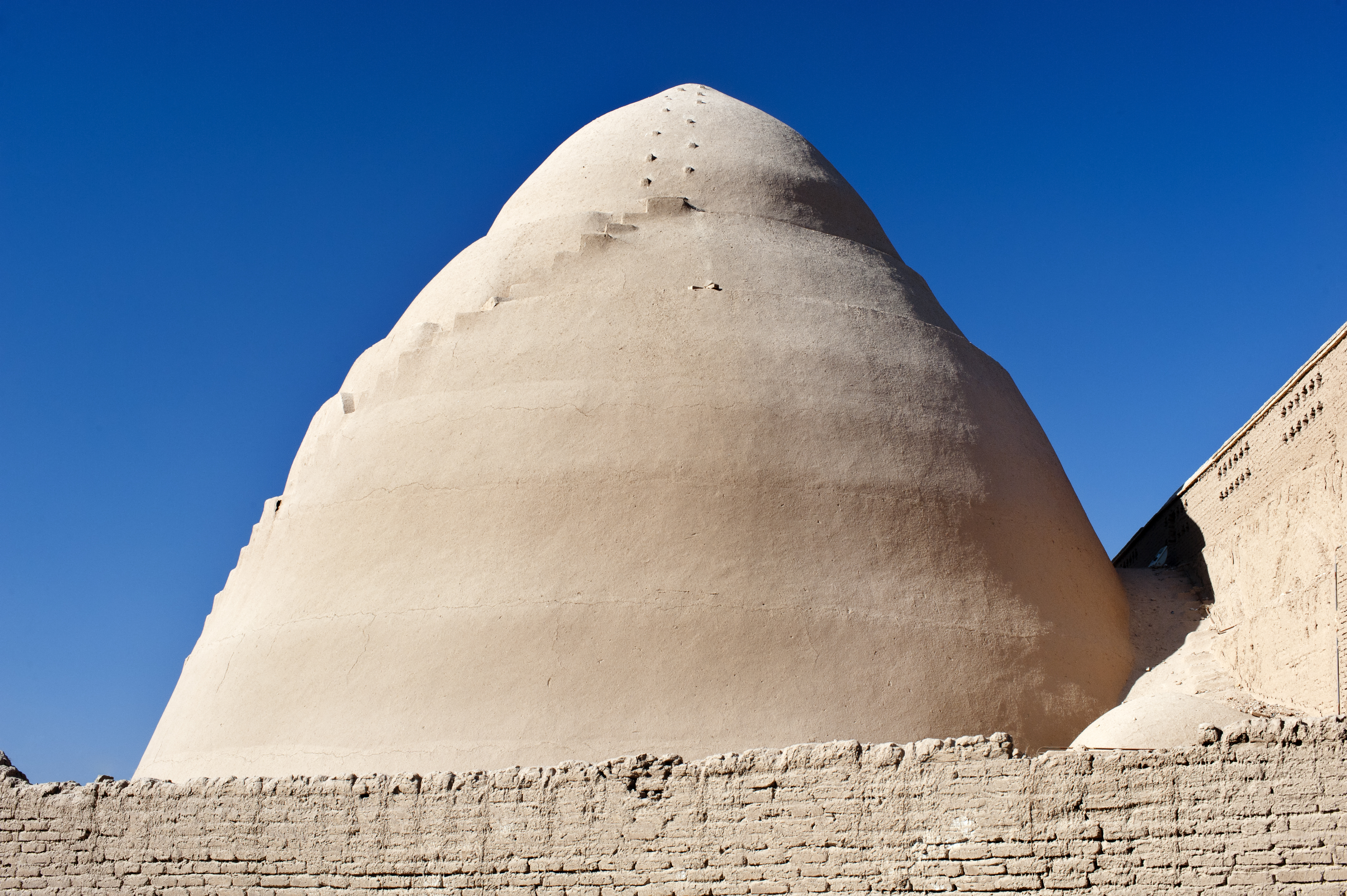 yakhchal or icehouse (exterior), Meybod, Iran.